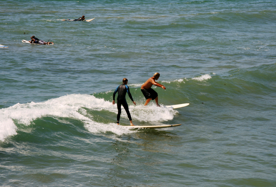 Surfer in San Clemente, California.